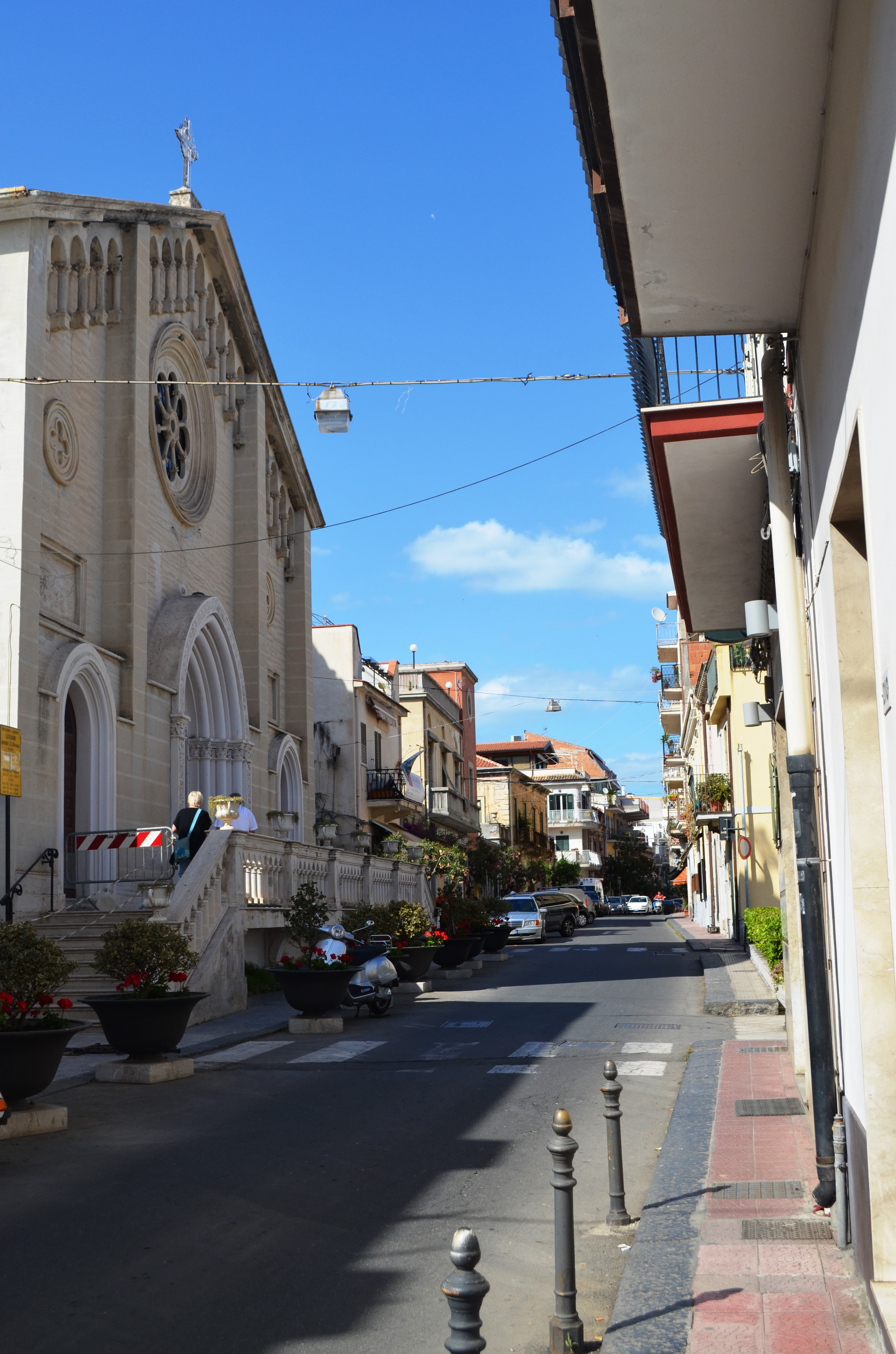 Letojanni, Sicily